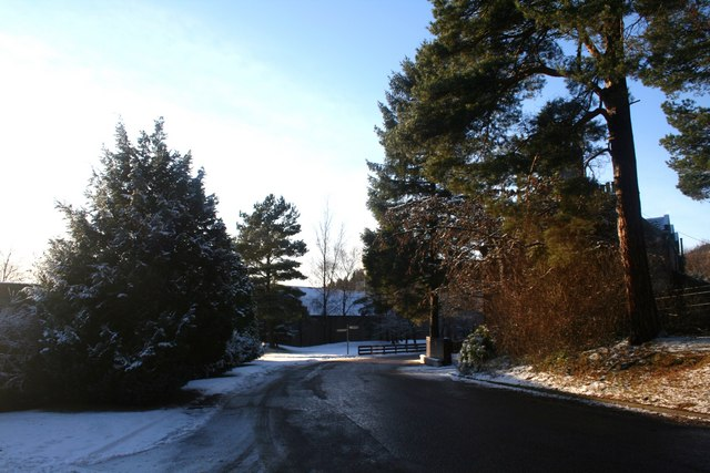 Tamdhu Entrance The access road to Tamdhu Distillery.